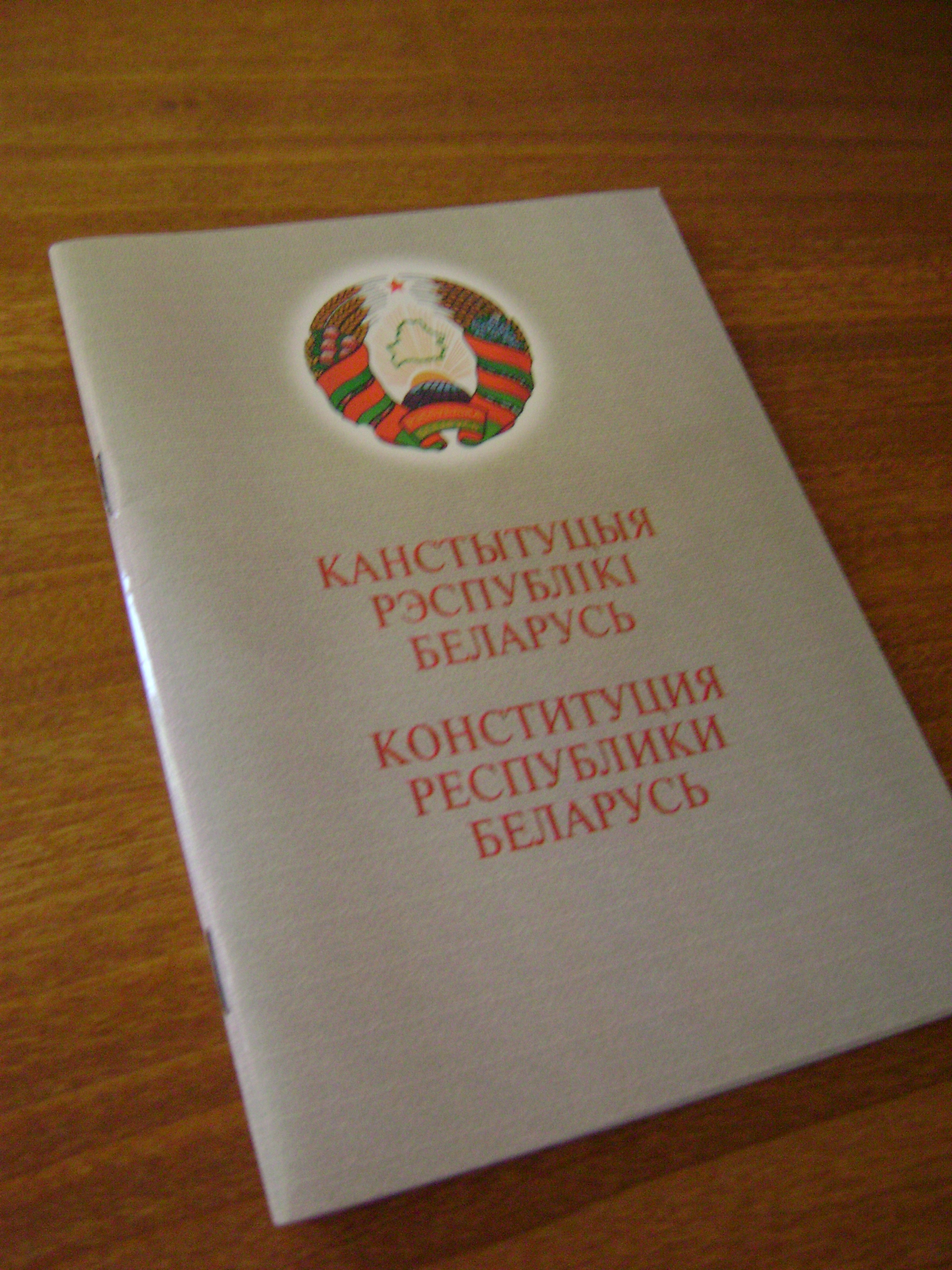 Cover of the Constitution of Belarus